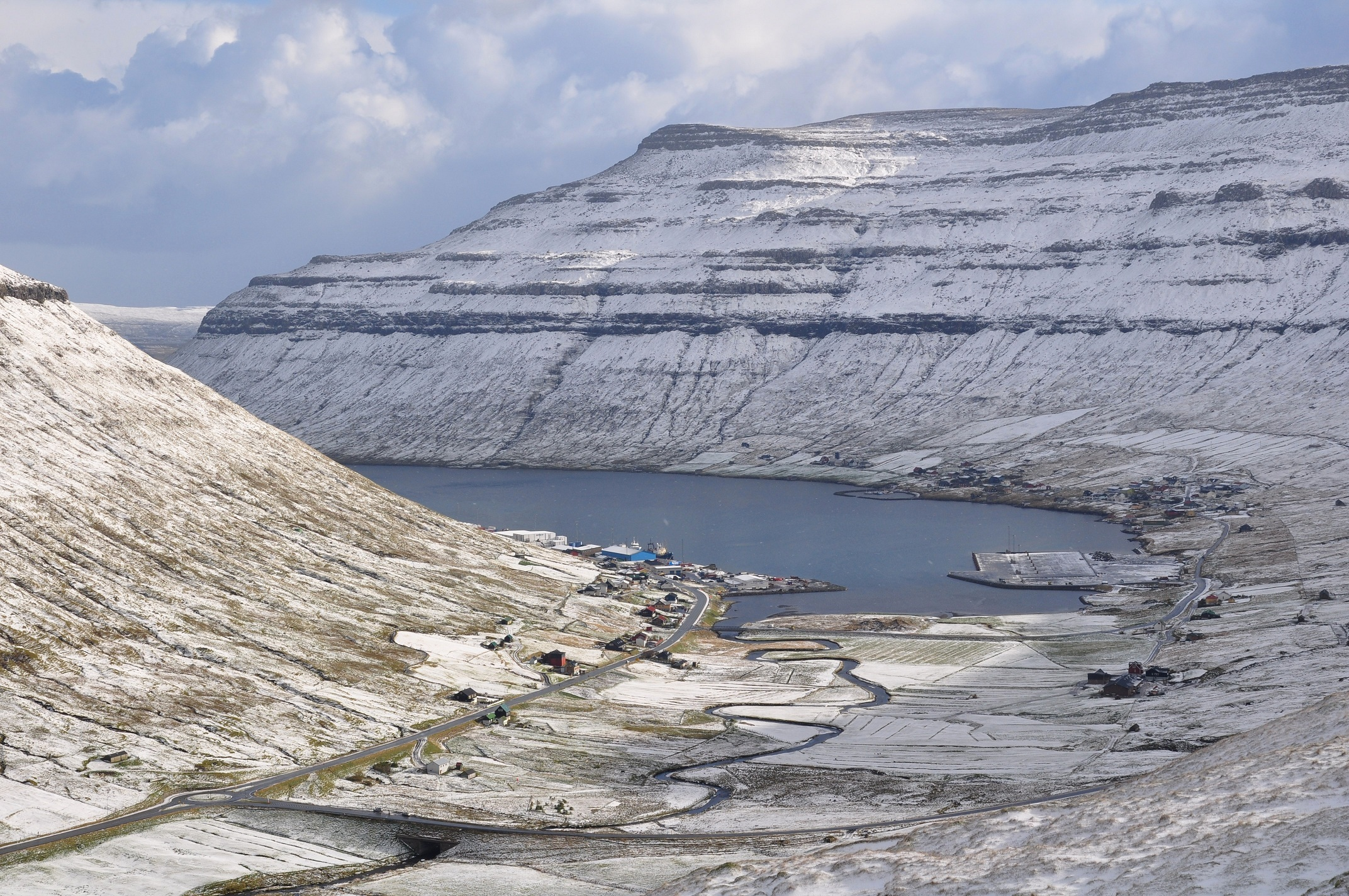 The villages Signabøur (right) and Kollafjørður (centre) on the shores of the fjord Kollafjørður on the island Streymoy (Faroe Islands, Denmark). The separate houses in the left and right foreground that do not lie WITHIN these villages form the hamlet of Oyrareingir.